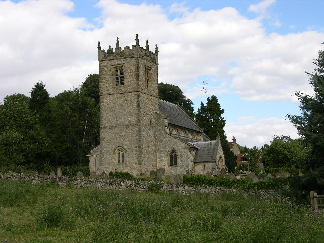 Holy Trinity parish church, Stonegrave, North Yorkshire, seen from the west